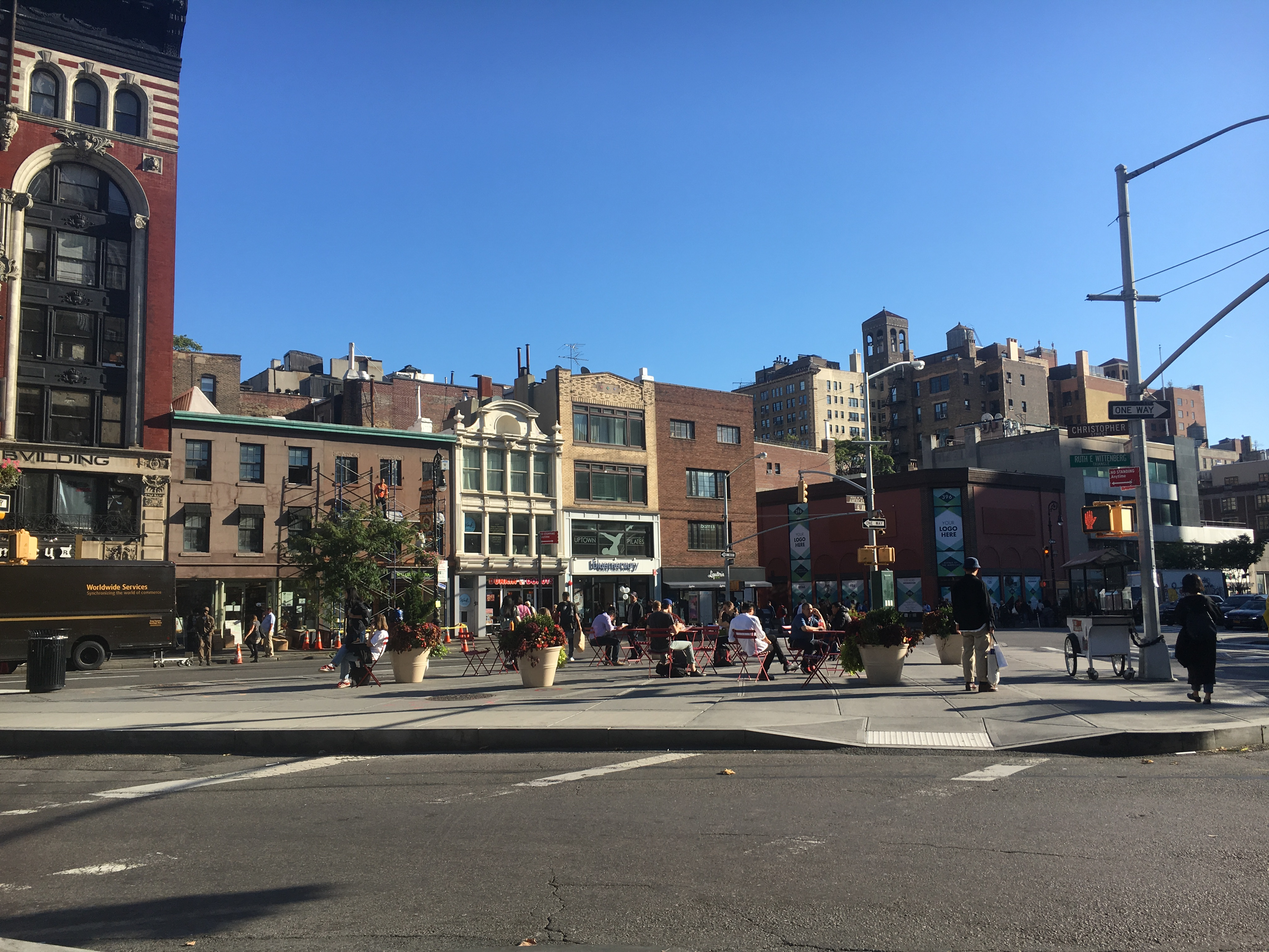 View of Ruth Wittenberg Triangle looking south